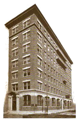 The Fairmount Savings Trust Company was organized June 14, 1907, by John Gribbel, Charles Edgerton and Israel H. Johnson, Temporary offices were opened at 1415 Arch Street, but in April, 1908, the company moved to its final home at the northwest corner of Fifteenth and Race Streets, Philadelphia.